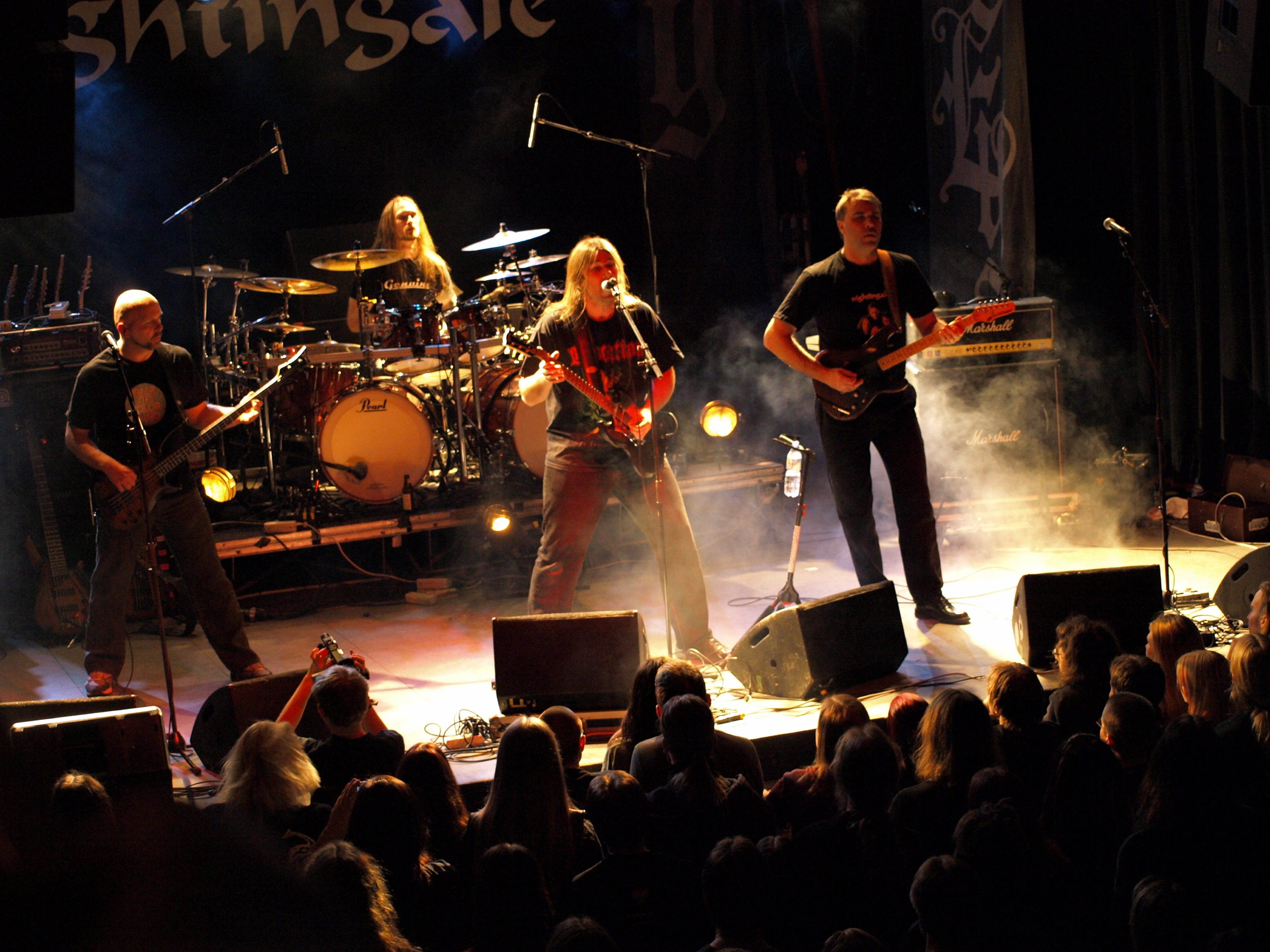 Swedish progressive metal band Nightingale live at Nosturi, Helsinki